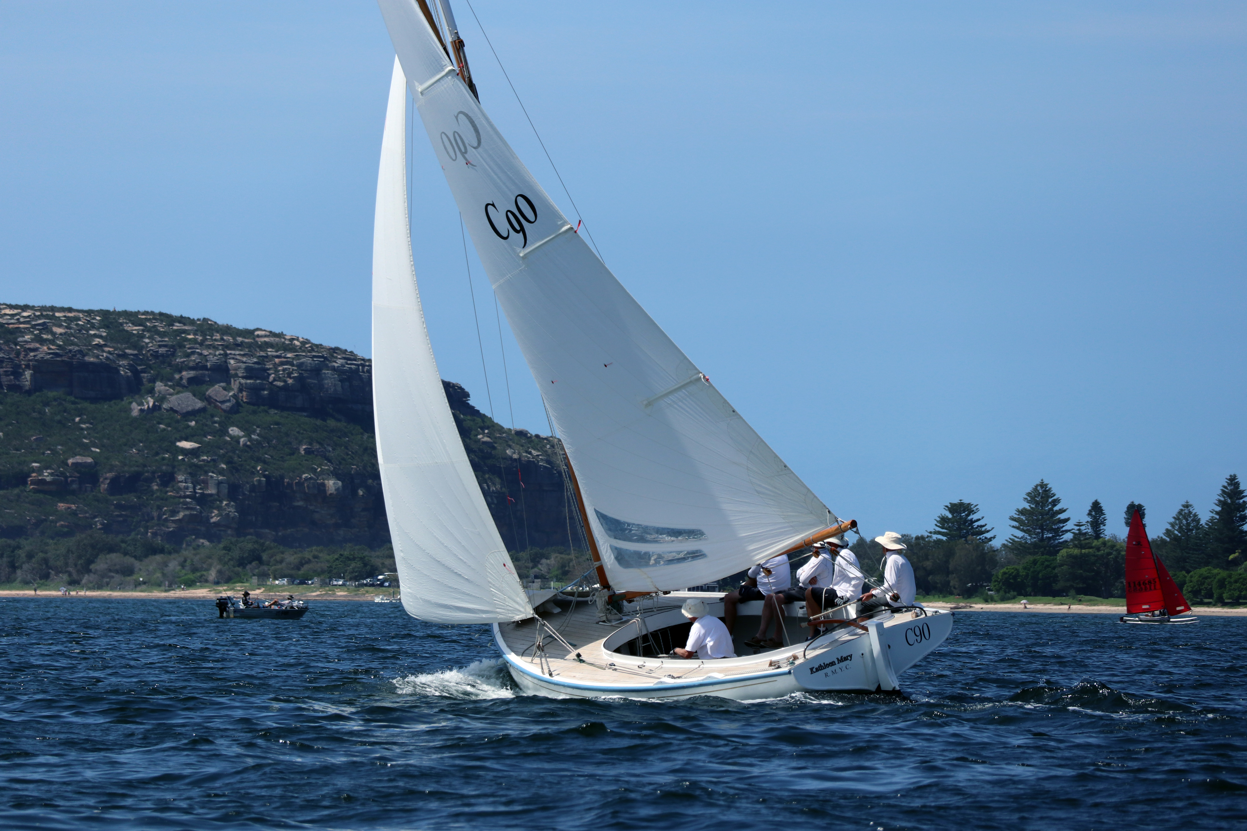 Couta boat, Kathleen Mary competing in the Wattle Cup on Pittwater, NSW, Australia. February 29th 2020.